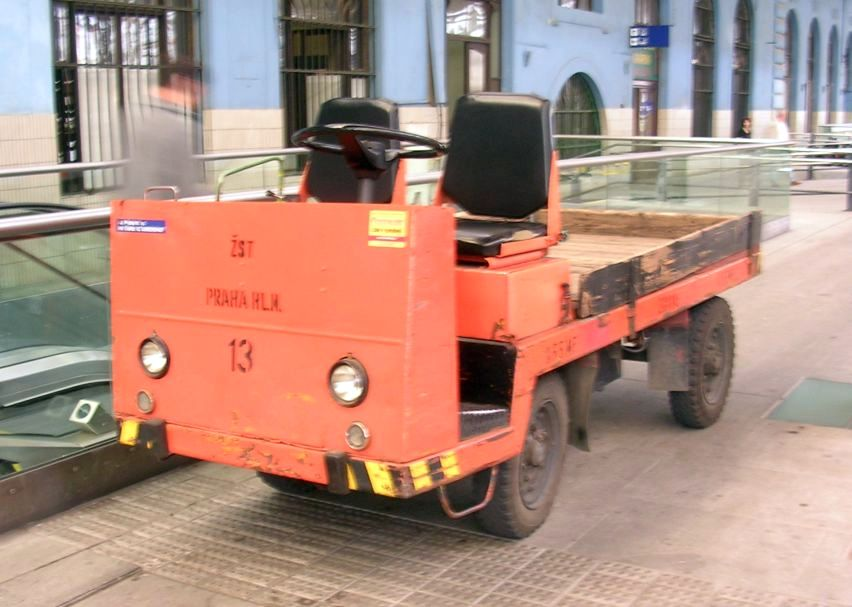 Vinohrady, Prague, the Czech Republic. "Praha hlavní nádraží" train station. Battery-powered baggage cart.